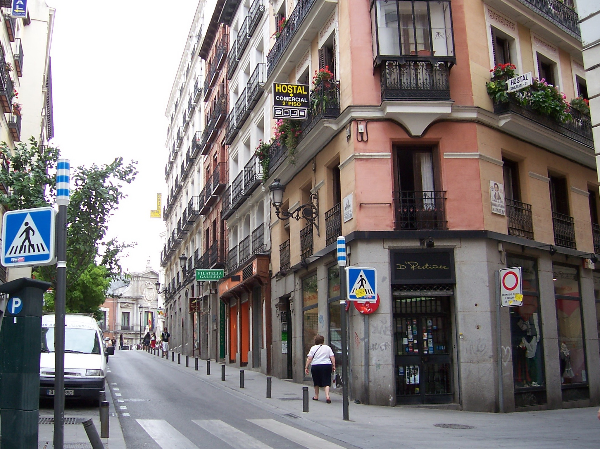 Street of Esparteros is an urban street of the district of Sun in the district Center of Madrid. It runs, in a north-south direction, from the Calle Mayor, next to the Puerta del Sol, to the Plaza de Santa Cruz. It owes its name to the old guild of esparto craftsmen. (Wikipedia text). At the bottom of the photo you can see the Headquarters of the Ministry of Foreign Affairs and Cooperation (MAEC) (former palace of Santa Cruz).